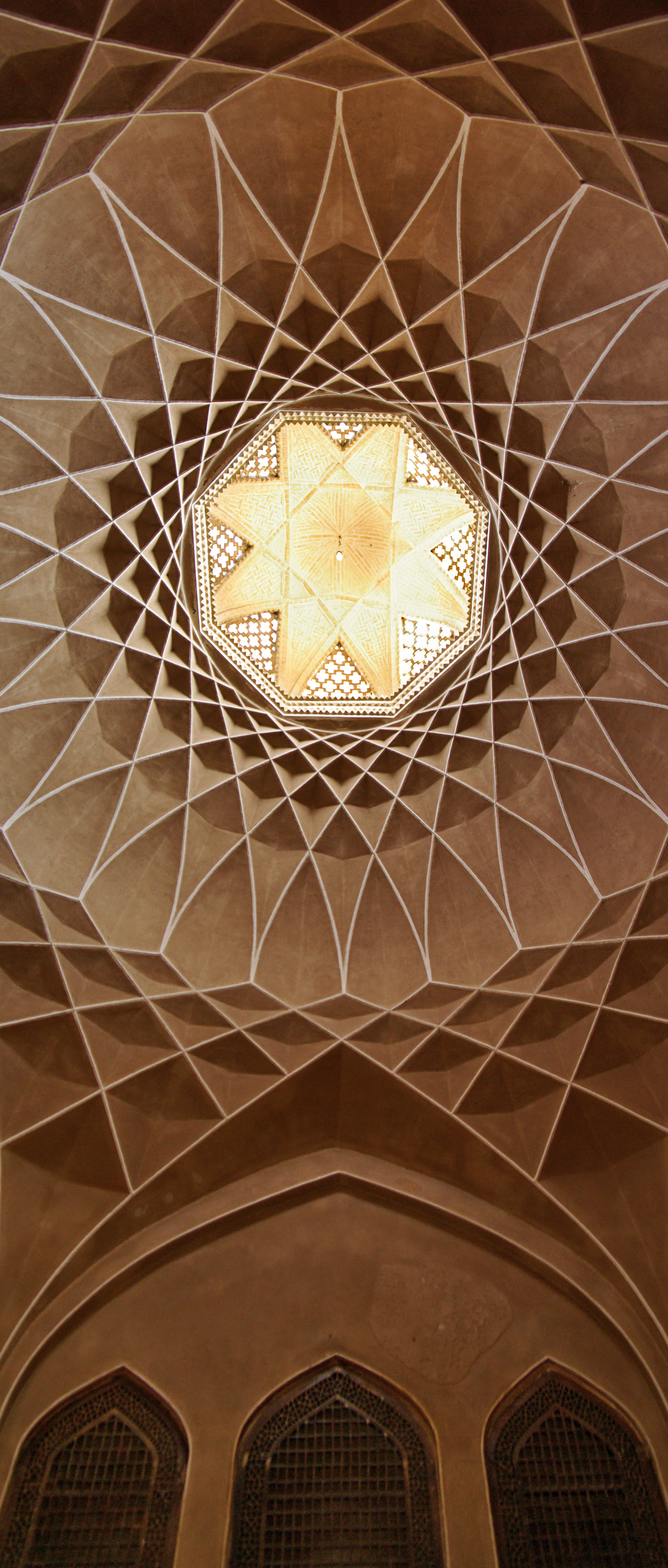 The interior decoration of the Dolat Abad windcatcher in Dolatabad Gardens, Yazd, Iran (panorama)